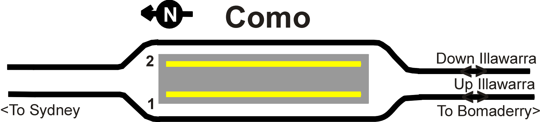 Track layout at Como railway station